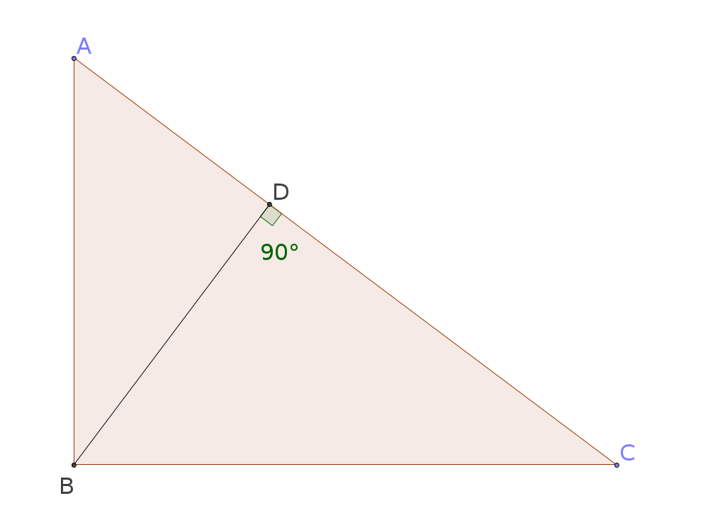 right triangle with hypotenuse height